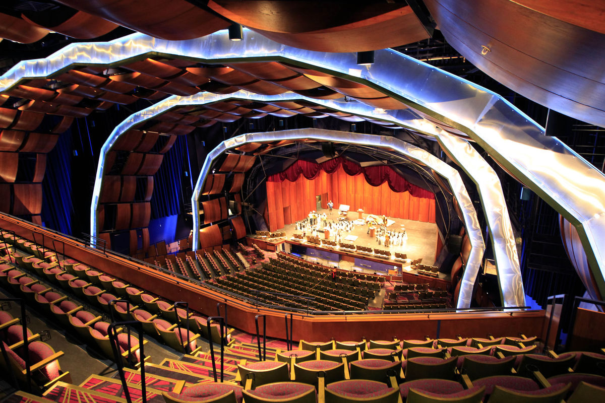 McAllen Performing Arts Center designed by Holzman Moss Bottino Architecture